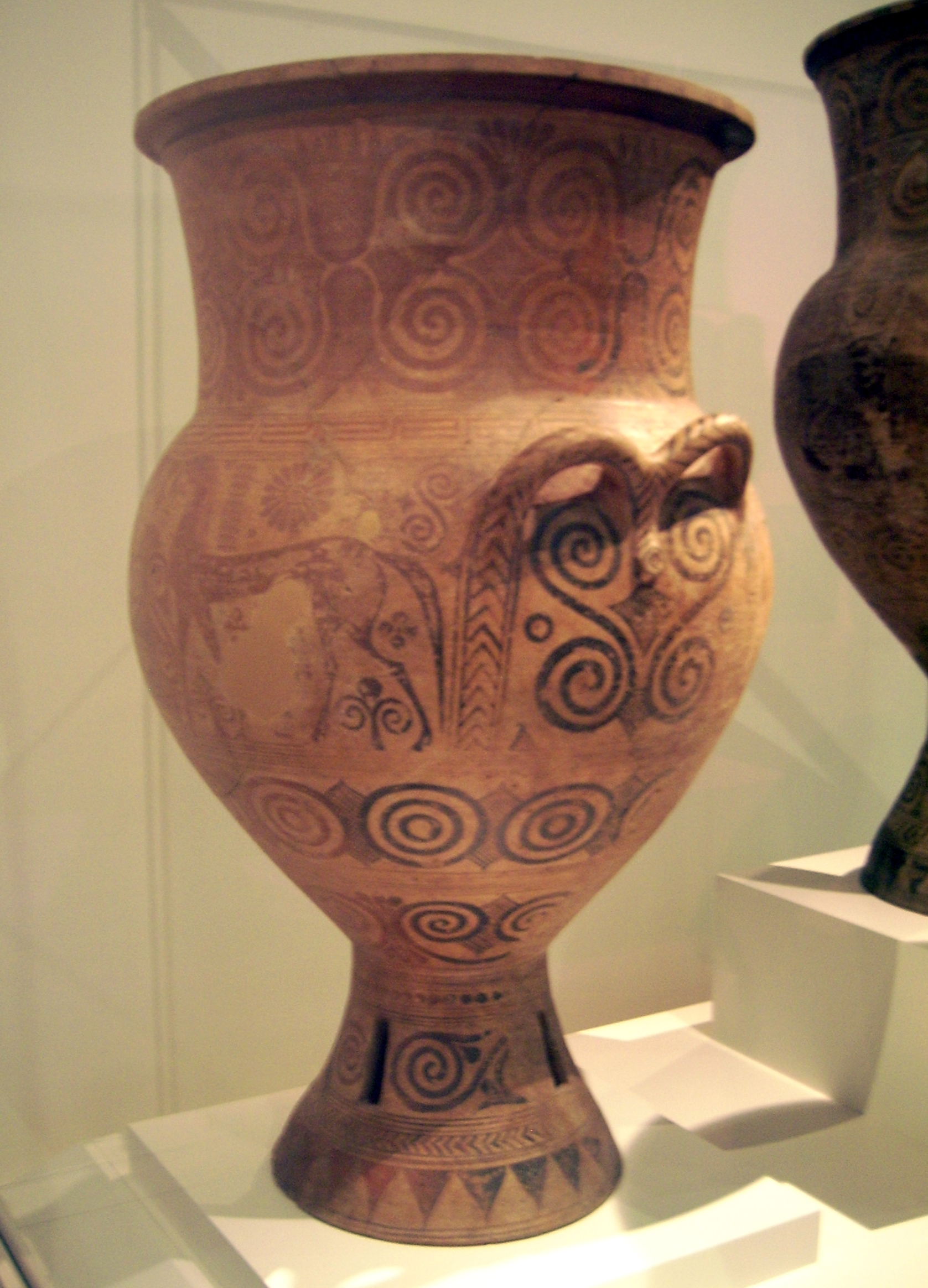 Phitos-Amphora from unknown provenance; A&B-Side: 2 Horses; depends to the "Melian Amphoras", but comes from a parian Workshop; made about 650/600 B.C.; today in the National Archaeological Museum of Athens (913).